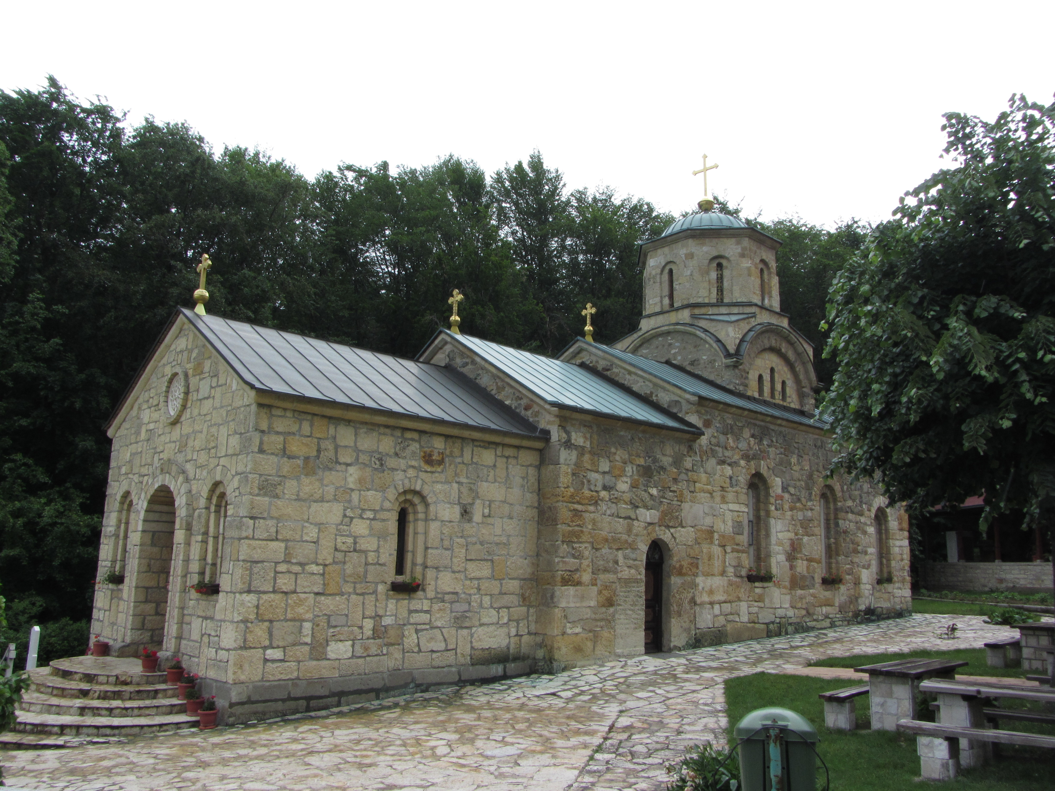 Monastery Tresije is Serbian Orthodox Monastery built in 1309, during King Dragutin's Rule.